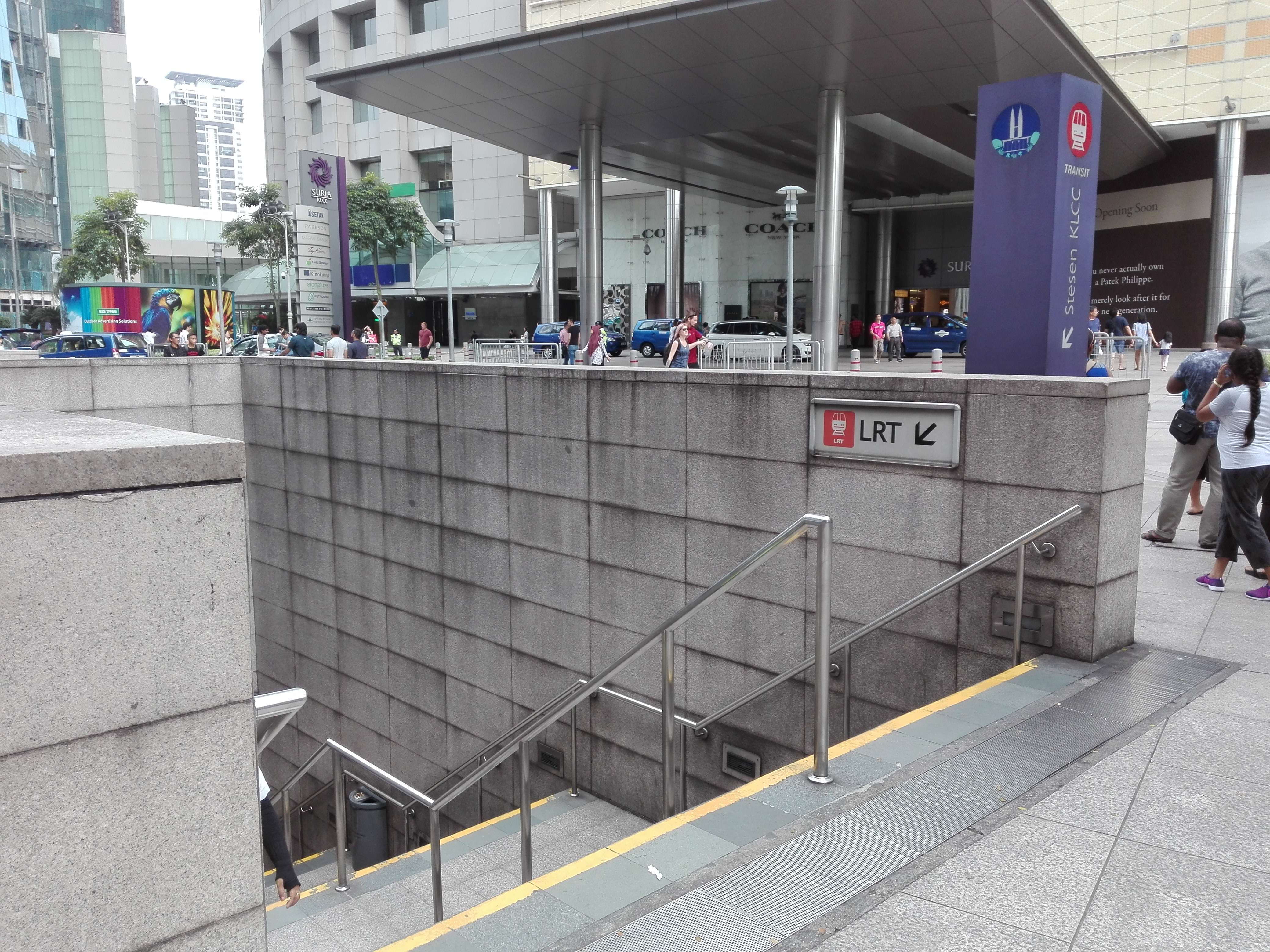 The entrance to the KLCC LRT station from the entrance of Suria KLCC.